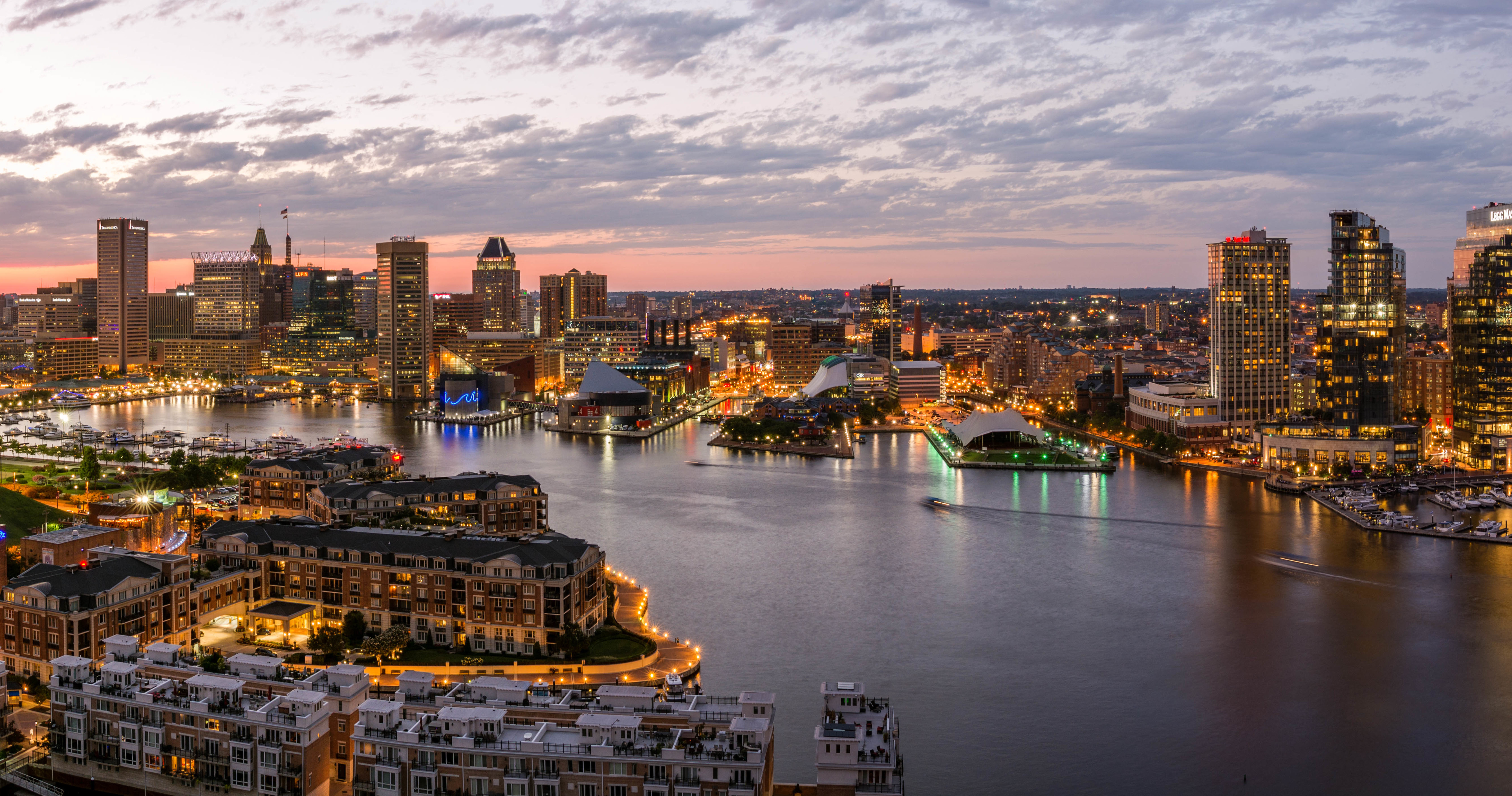 A panorama of Baltimore's Inner Harbor.